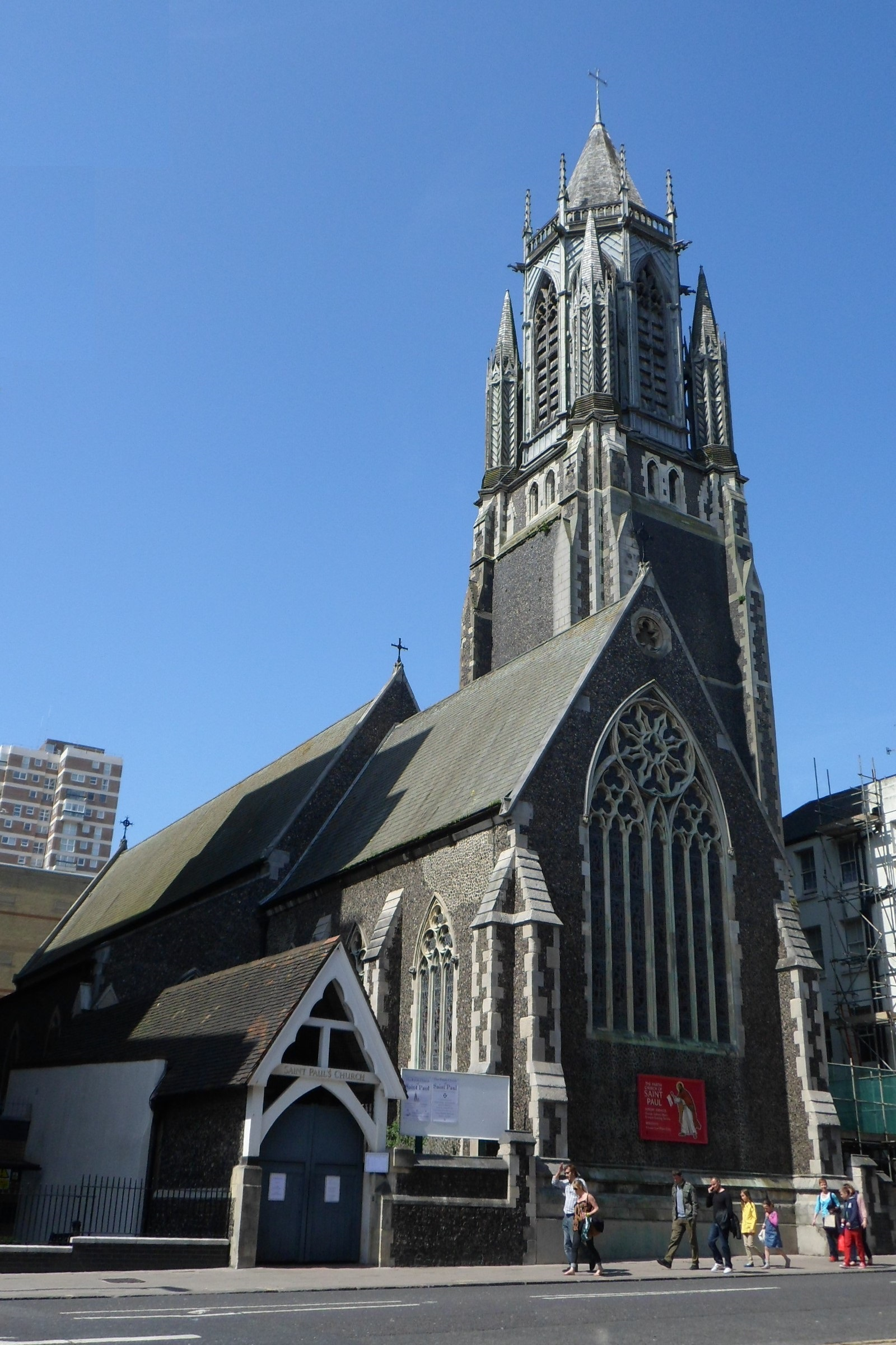 St Paul's parish church, West Street, Brighton, Sussex, seen from the southeast